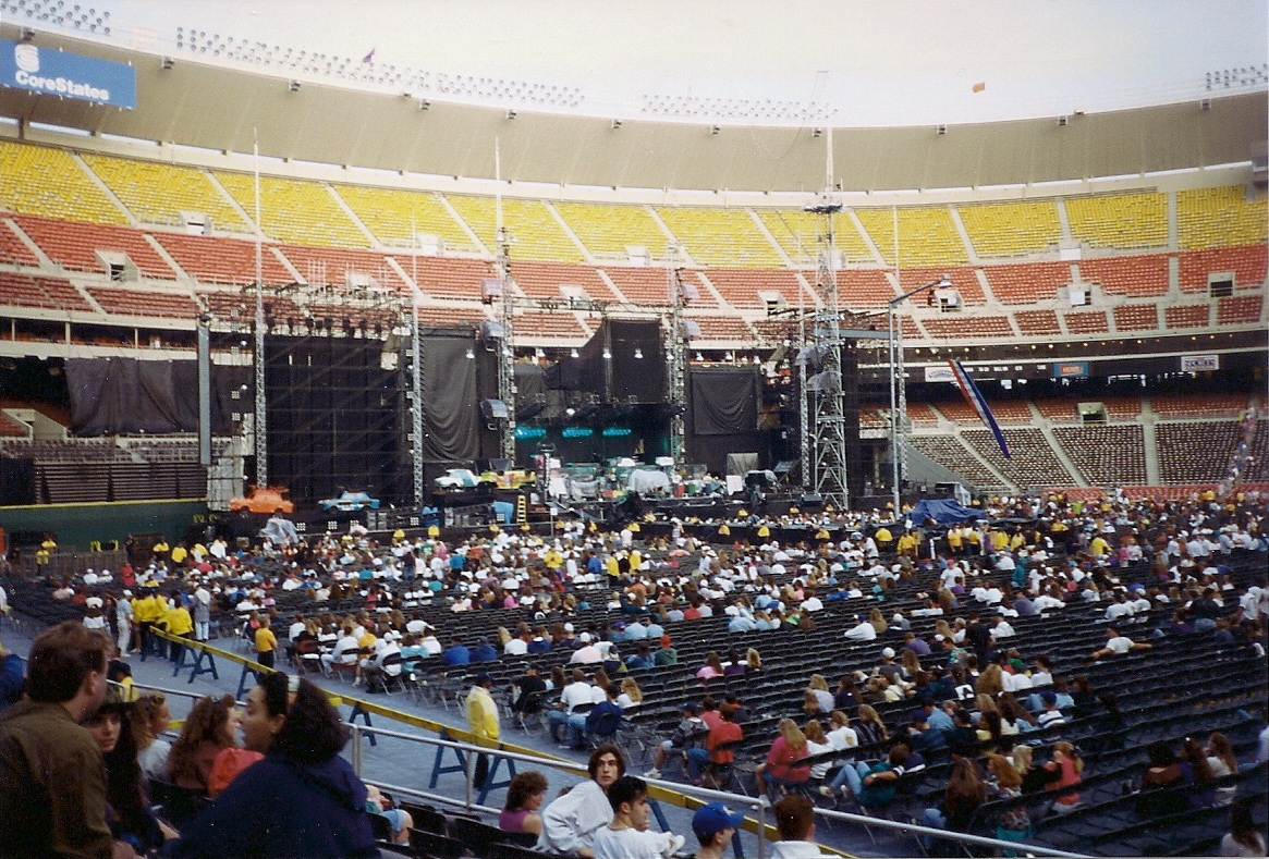 Stage, floor, and surrounding stadium before U2's Zoo TV Tour show at Veterans Stadium in Philadelphia.